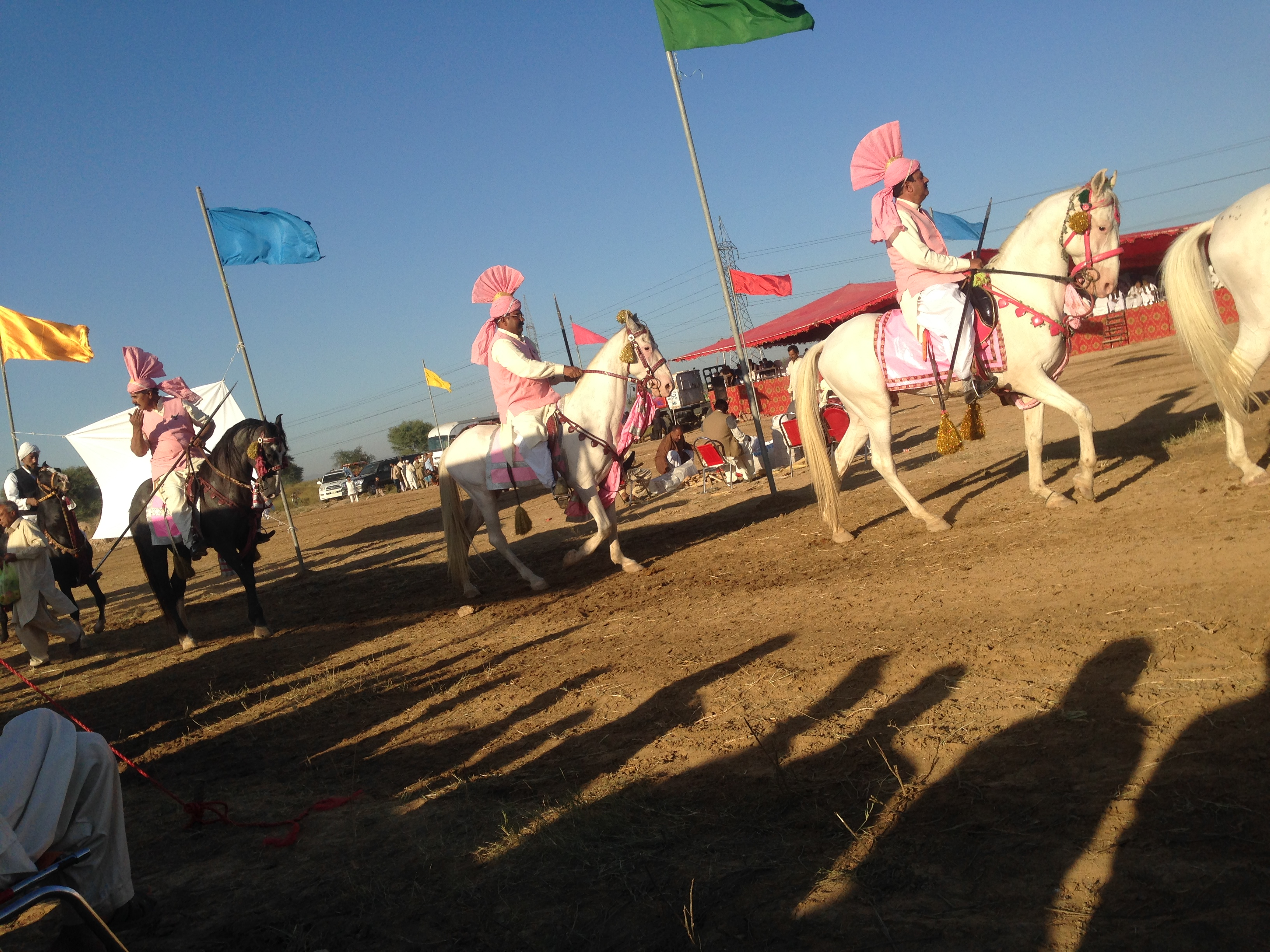 Nawab Ghous Bukash Raisani tent pegging tournement G-16 Islamabad